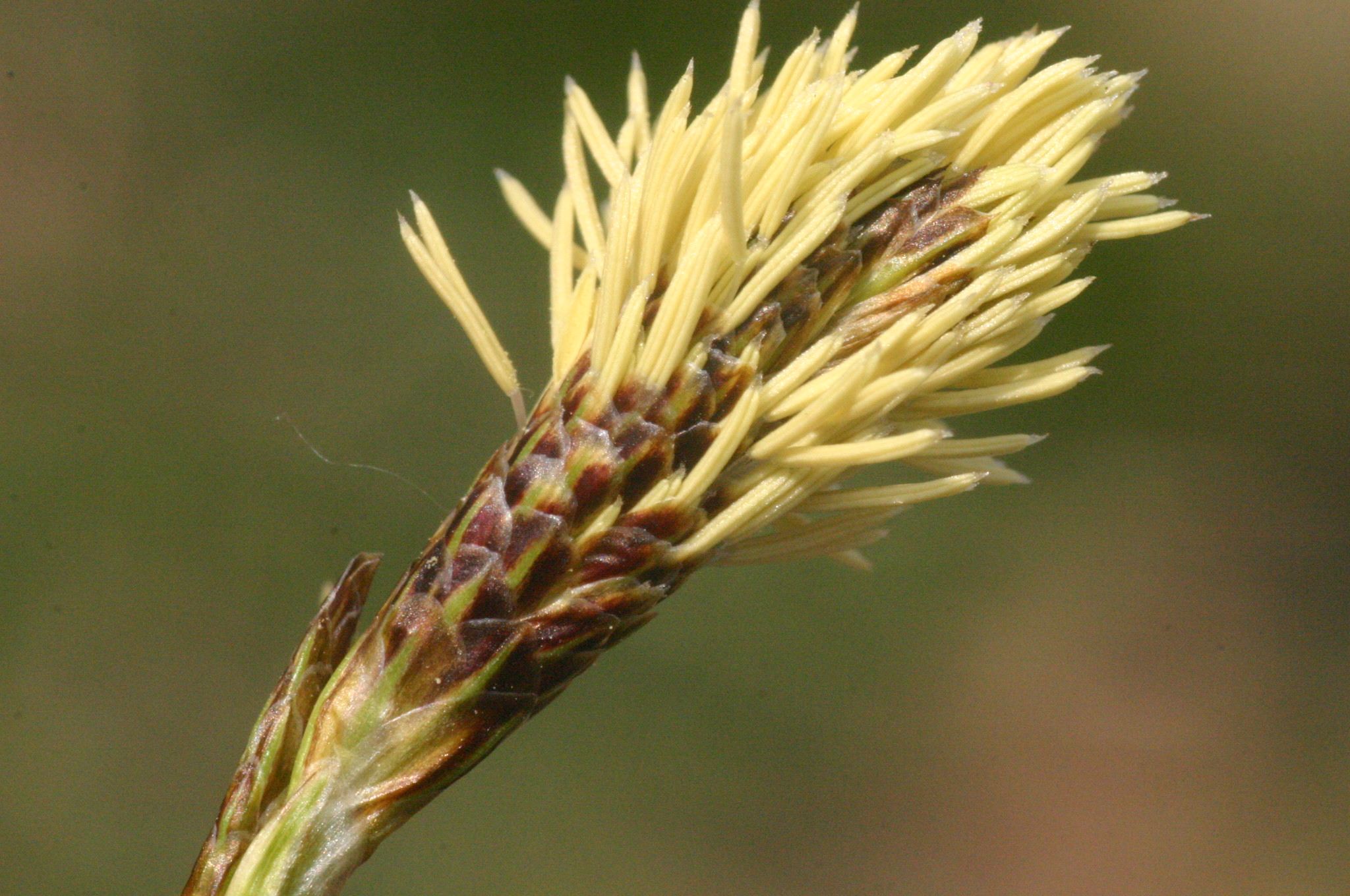 Carex sempervirens